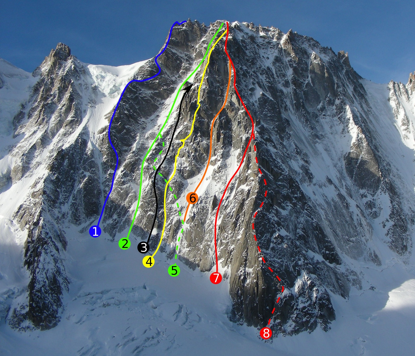 Les Droites - North-East face